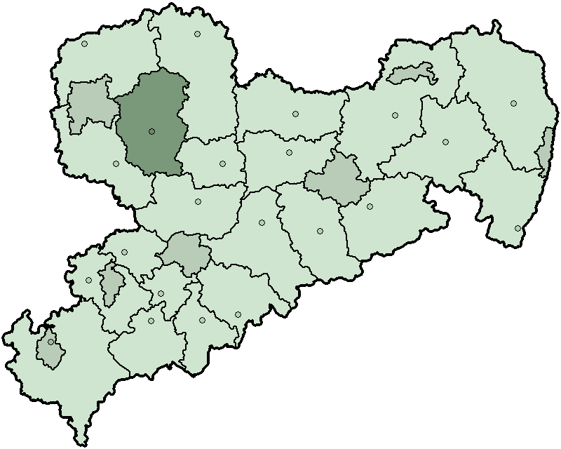 Map of the state Saxony in Germany before 2008, district Muldentalkreis highlighted.